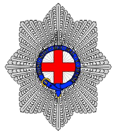 Star of the Order of the Garter